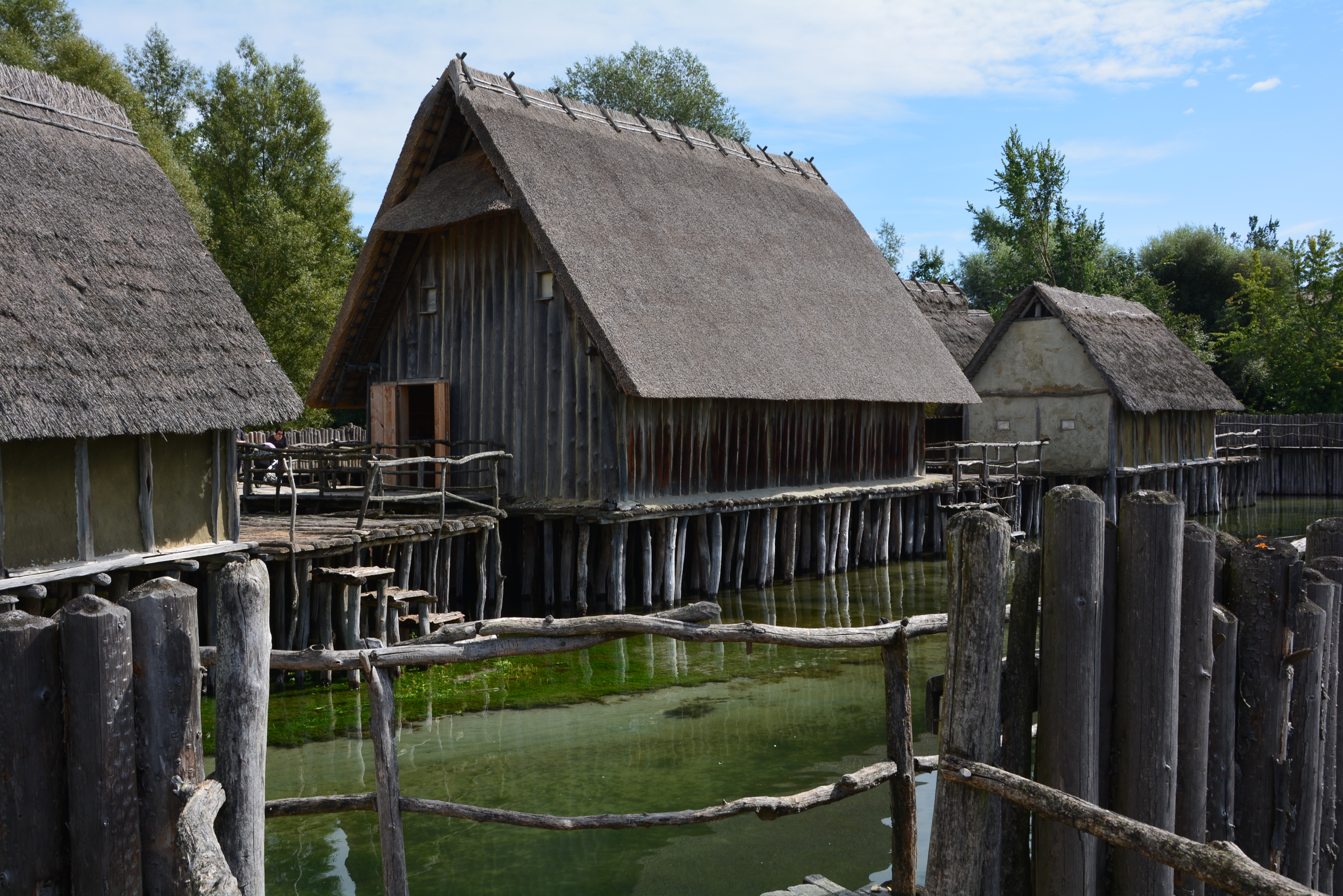 Stilt houses in Unteruhldingen, Germany